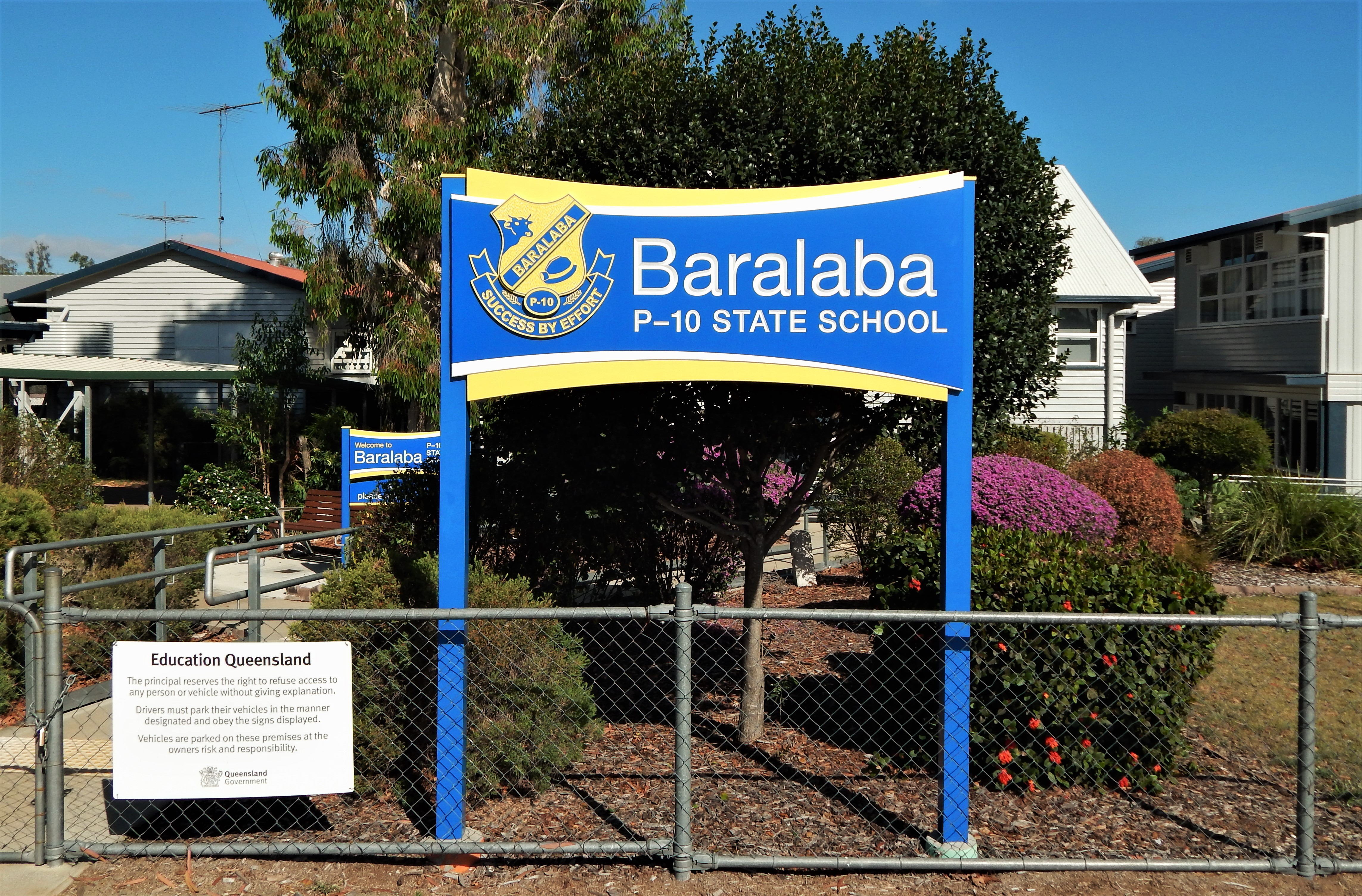 The local Prep - Year 10 school in Baralaba, Queensland